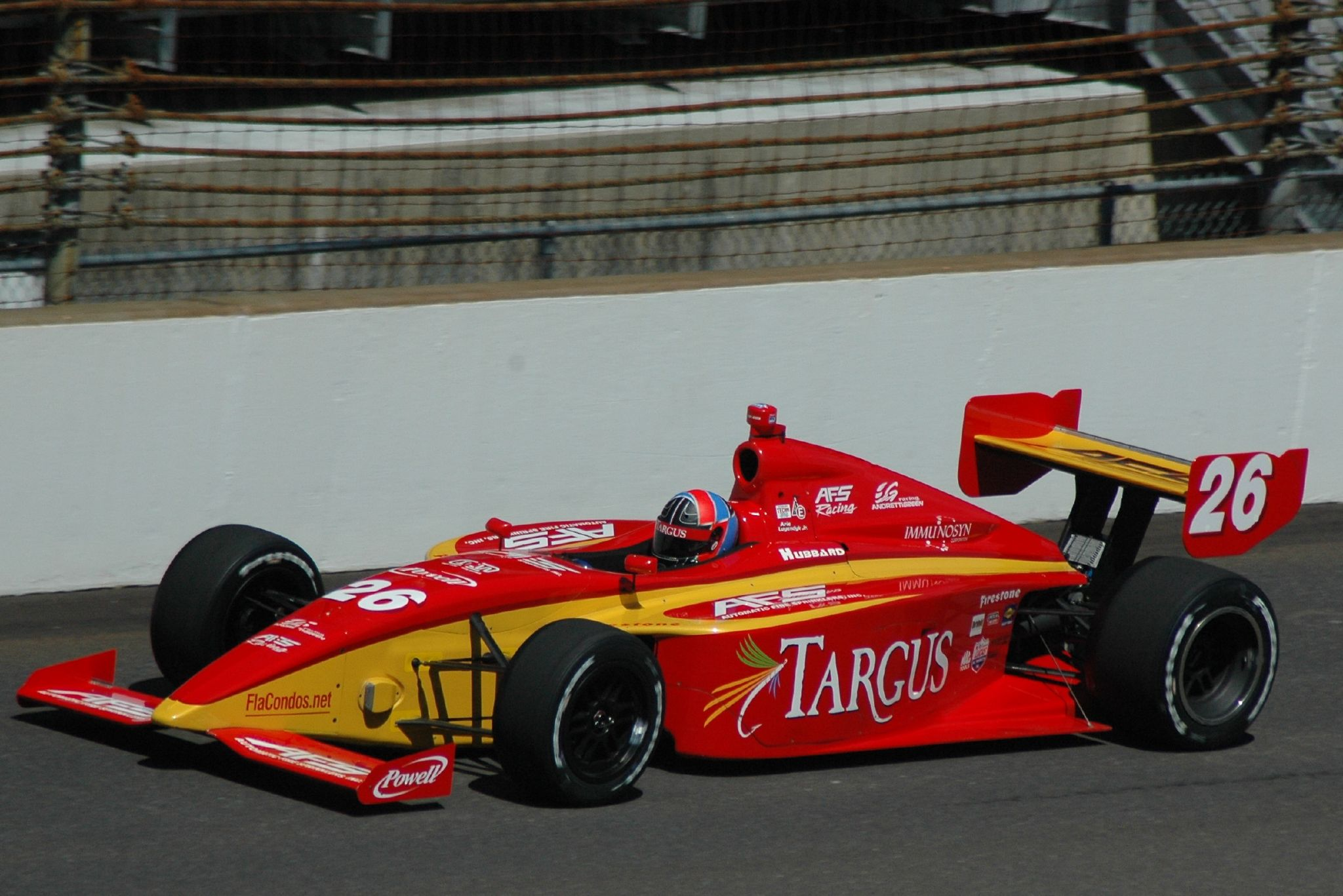 Arie Luyendyk, Jr. practicing for the 2008 Firestone Freedom 100 Indy Lights race